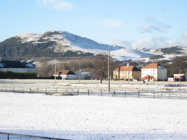 Wauchope Square. This is where Wauchope Square used to be - it's a bit empty for now, between old flats coming down and new ones going up. However, this does provide a good view over to Arthur's Seat from Niddrie Mains Road! And in the distance there you can see the community centre (yellow/orange building), which is historically important within the community.